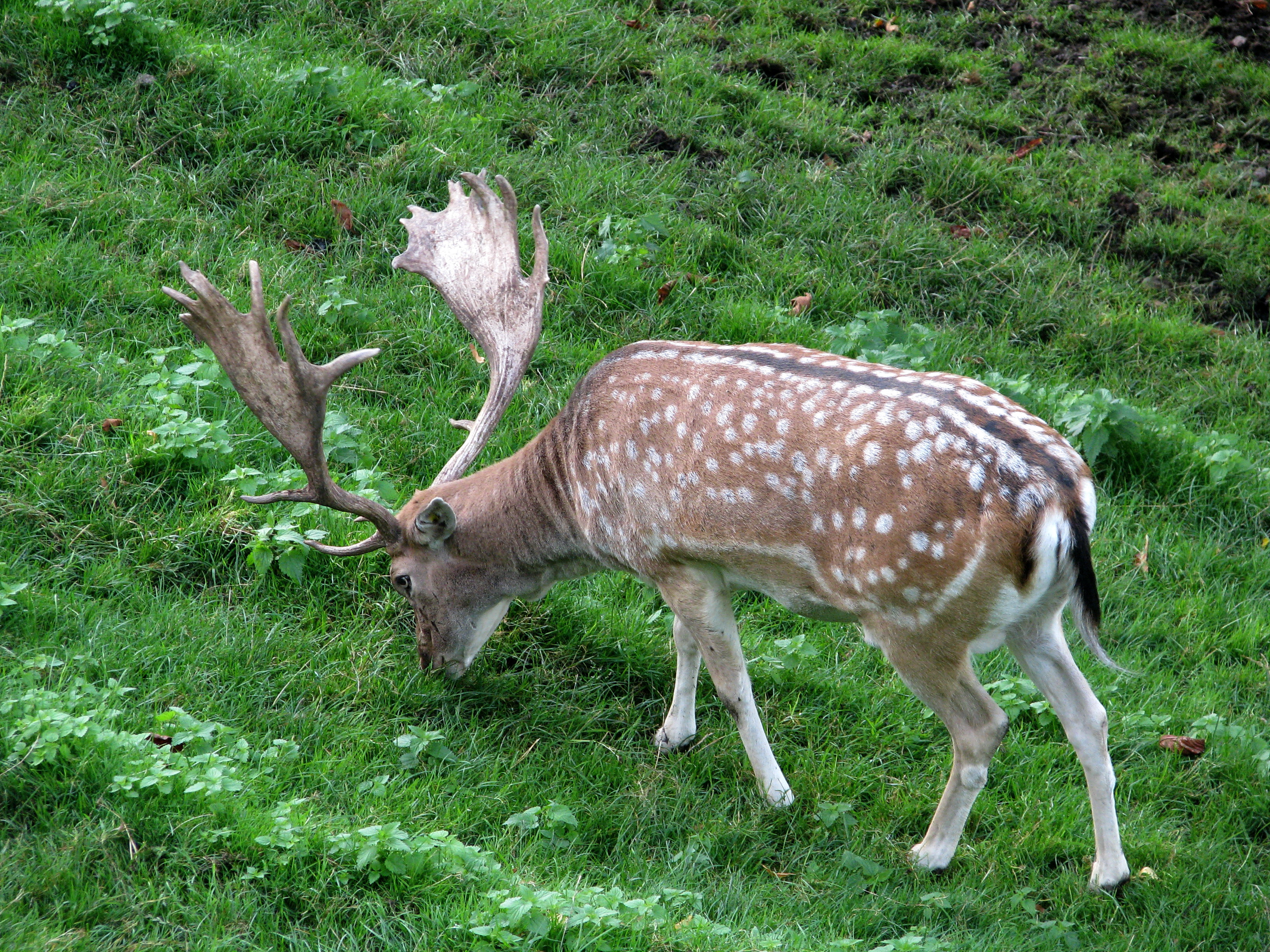 Rapperswil (SG) : Fallow Deer located at Rapperswil castle.